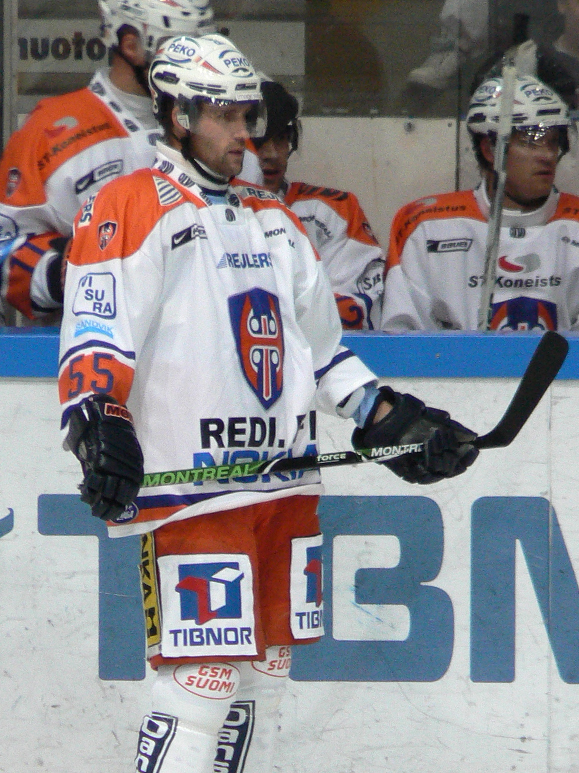 Finnish ice hockey defenceman Janne Grönvall playing for Tappara Tampere in September, 2008.